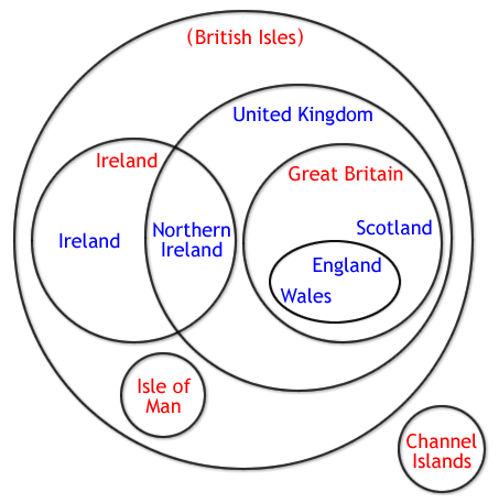 Update of British_Isles_Venn_Diagram.jpg Added Isle of Man. Original by User:Jfg284 Geographical locations are shown in red, political entities are in blue. Other versions SVG: :commons:File:British Isles Venn Diagram-de.svg